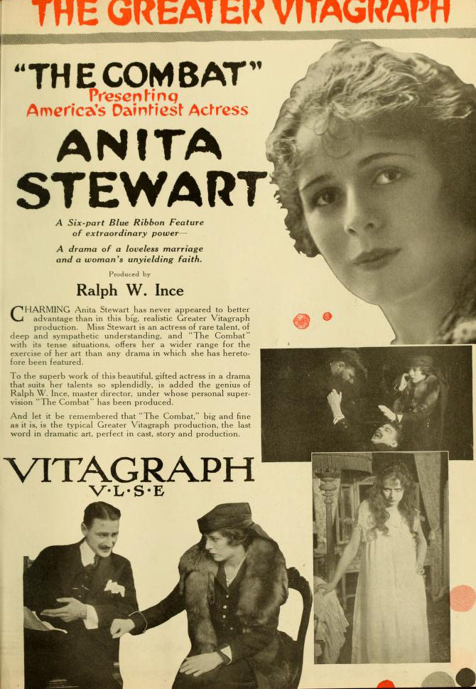 Advertisement in Moving Picture World for the film The Combat (1916).